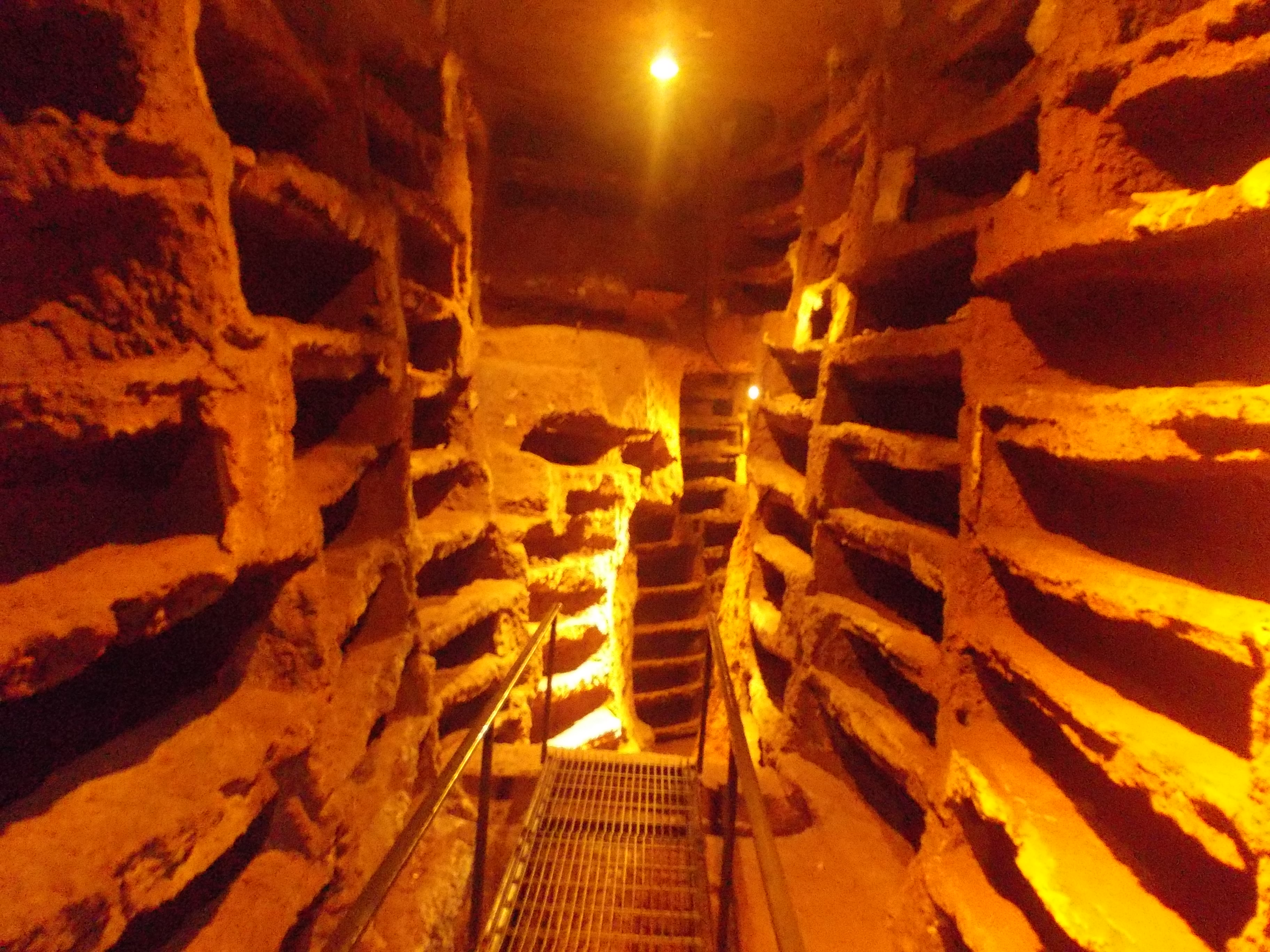 Graves escaved in S. Savinilla's catacomb in Nepi, near Rome